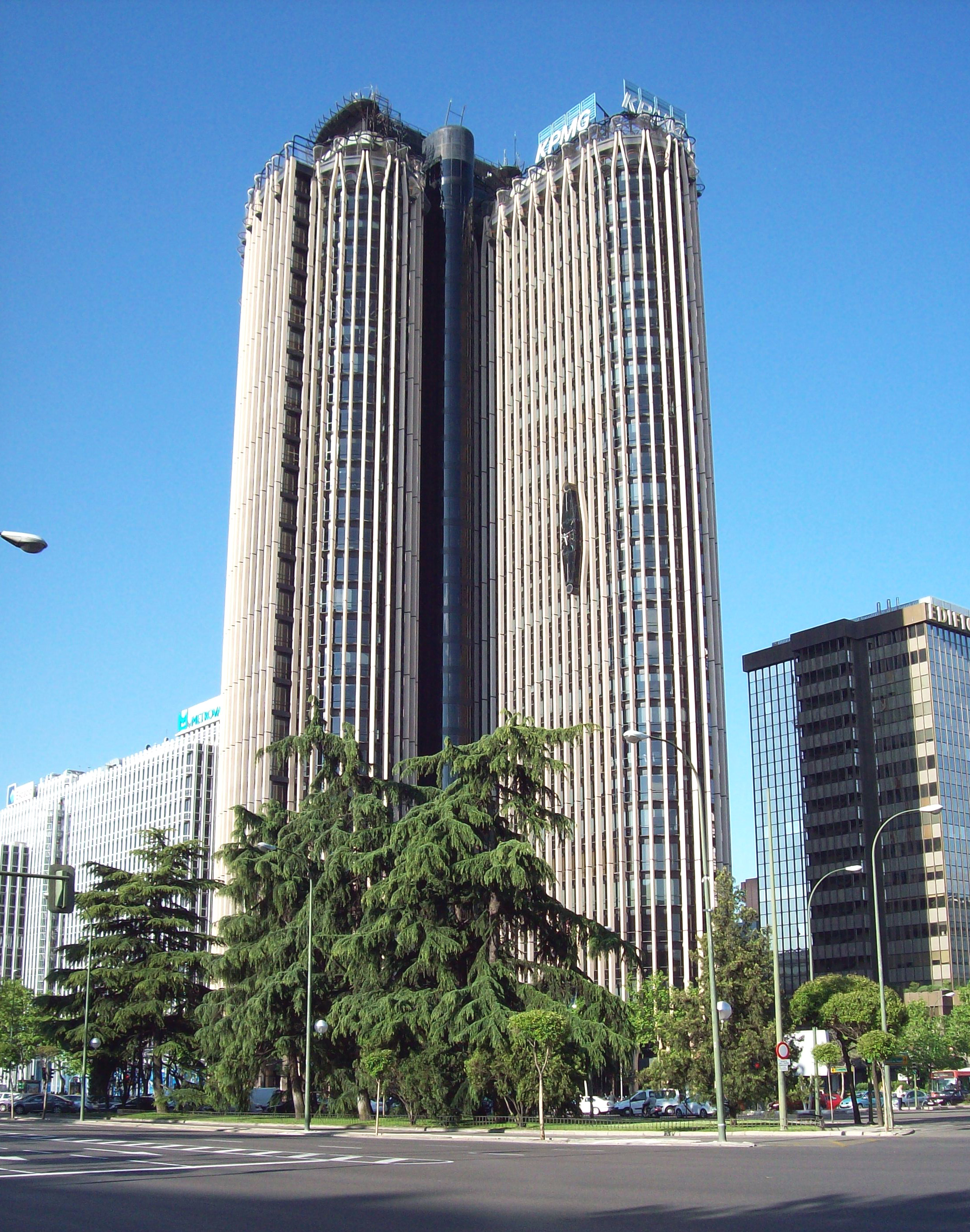 View of Torre Europa in Madrid (Spain).